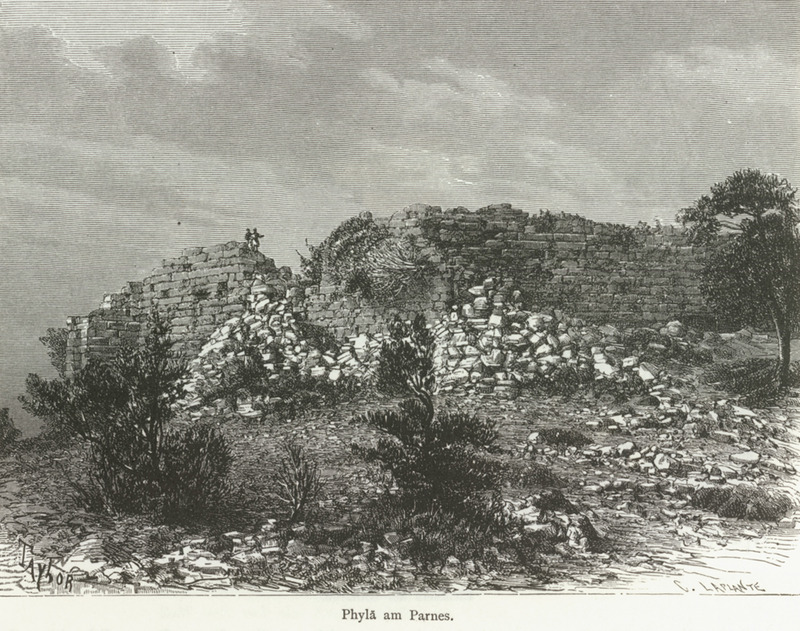 Amand Schweiger von Lerchenfeld. Griechenland in Wort und Bild, Eine Schilderung des hellenischen Konigreiches, Leipzig, Heinrich Schmidt & Carl Günther, 1887